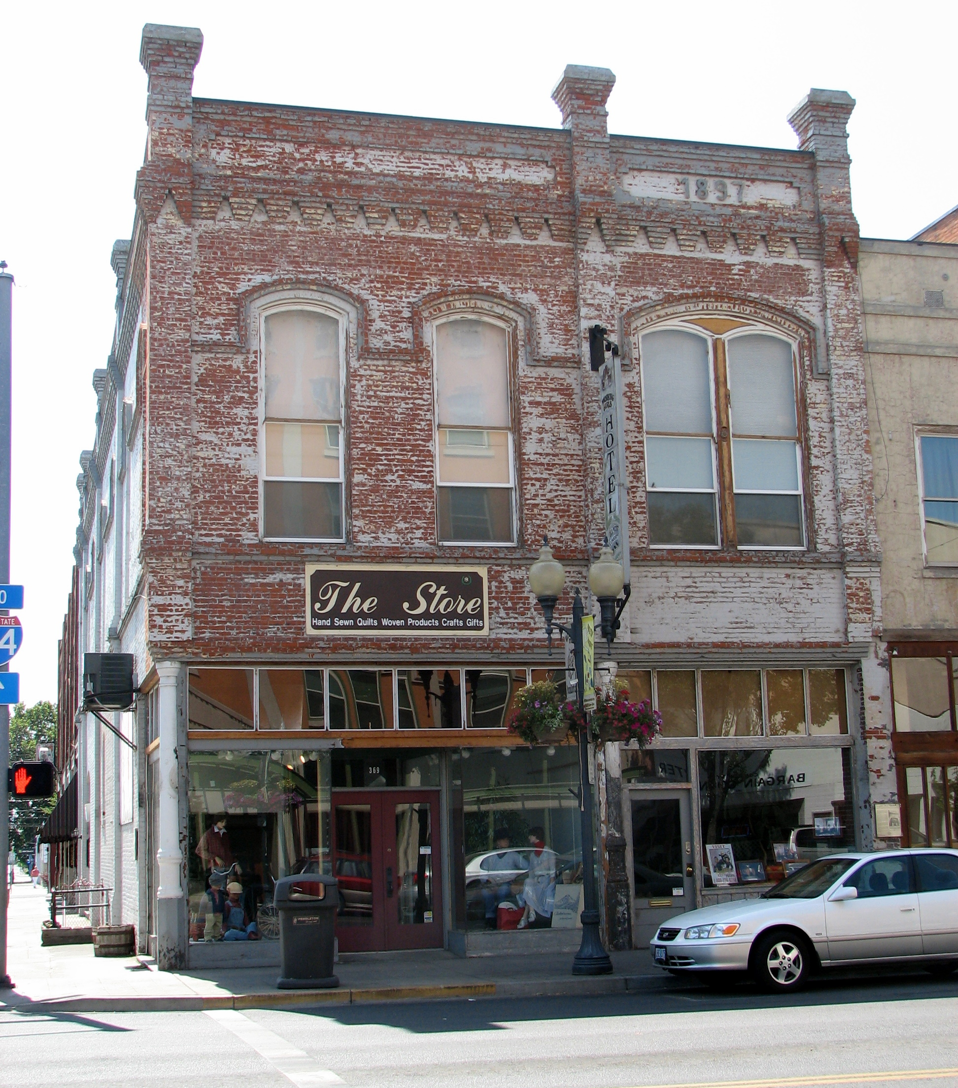 The historic Hendricks Building / Knights of the Maccabees (K.O.T.M.) Temple (built 1897), located at 369 South Main Street in Pendleton, Oregon, United States, is listed on the US National Register of Historic Places (NRHP). It is additionally located within the NRHP-listed South Main Street Commercial Historic District.